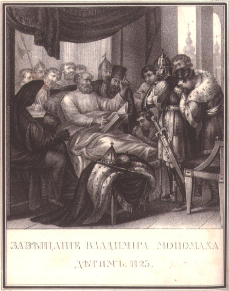 The Testament of Vladimir Monomakh to Children, 1125. Lithography of Boris Chorikov's painting, which was made for his Picturesque Karamzin (published in 1836 in St.Petersburg).